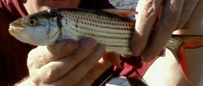 Small tigerfish Hydrocynus vittatus from the upper Zambezi, near Livingstone. Excuses for image quality, small size, taken with a mobile. Hope to have an intact camera and bigger fish next time. This species can grow up to a meter.